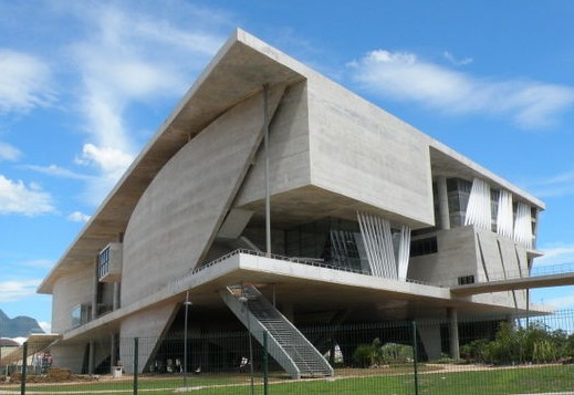 Cidade das Artes - Rio de Janeiro - Brasil